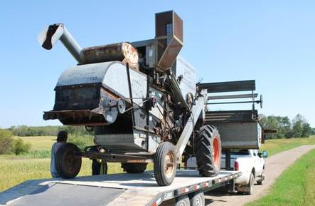 1965 Allis-Chalmers Gleaner E loaded onto trailer, photo taken in Dysart area, Saskatchewan, Canada.